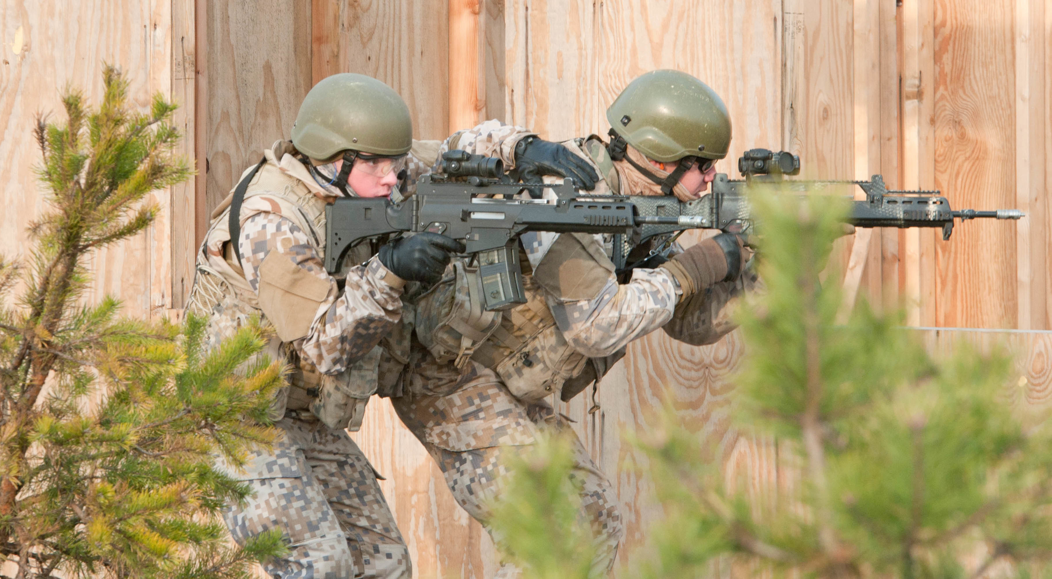 Two Latvian soldiers from Company B, 1st Infantry Battalion, Infantry Brigade, move through a village during a training exercise at Adazi Training Area, Latvia, Nov. 14, 2014. The exercise consisted of an assault on the village and a search and rescue operation for a hostage inside the village. U.S. soldiers from Company A, 2nd Battalion, 8th Cavalry Regiment, 1st Brigade Combat Team, 1st Cavalry Division, provided technical guidance during the planning and practice phases of the training operation. These activities are part of the U.S. Army Europe-led Operation Atlantic Resolve land force assurance training exercise taking place across Estonia, Latvia, Lithuania and Poland to enhance multinational interoperability, strengthen relationships among allied militaries, contribute to regional stability and demonstrate U.S. commitment to NATO. (U.S. Army photo by Staff Sgt. Kenneth C. Upsall)